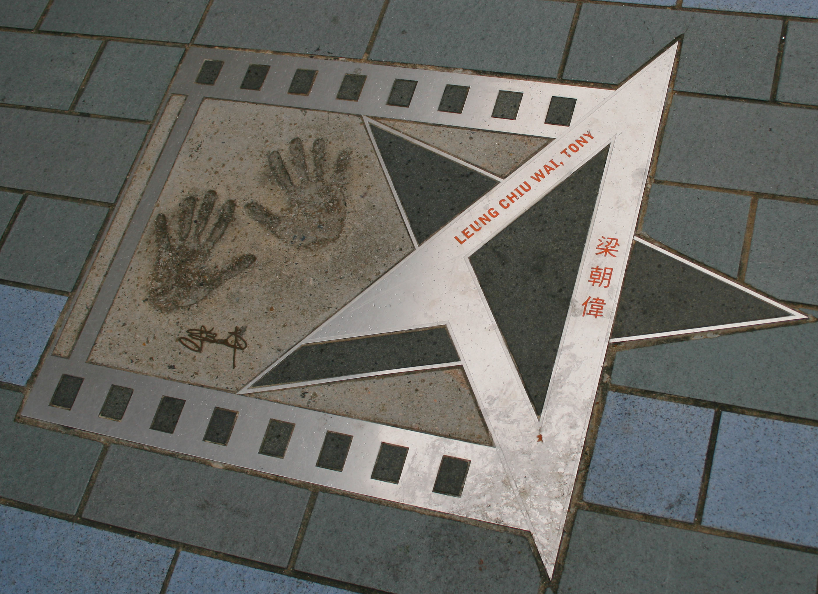 Leung Chiu-wai's fingerprint in Avenue of Stars